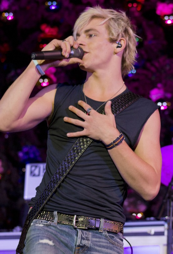 Ross Lynch performing along with R5 at the Citadel's 12th Annual Christmas Tree Lighting, Los Angeles, CA on November 9th, 2013.